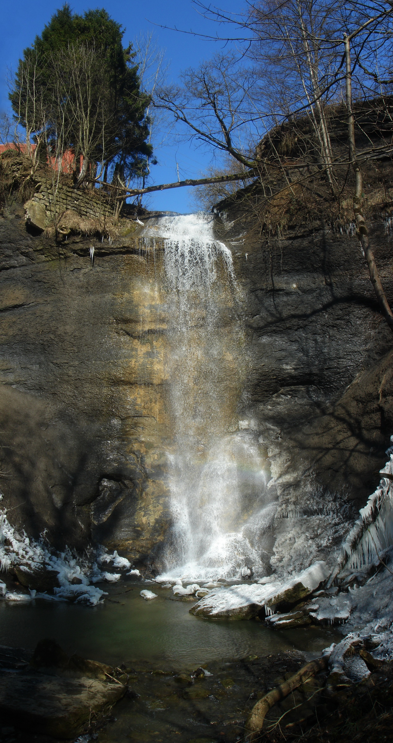 Small waterfall near Balingen-Zillhausen